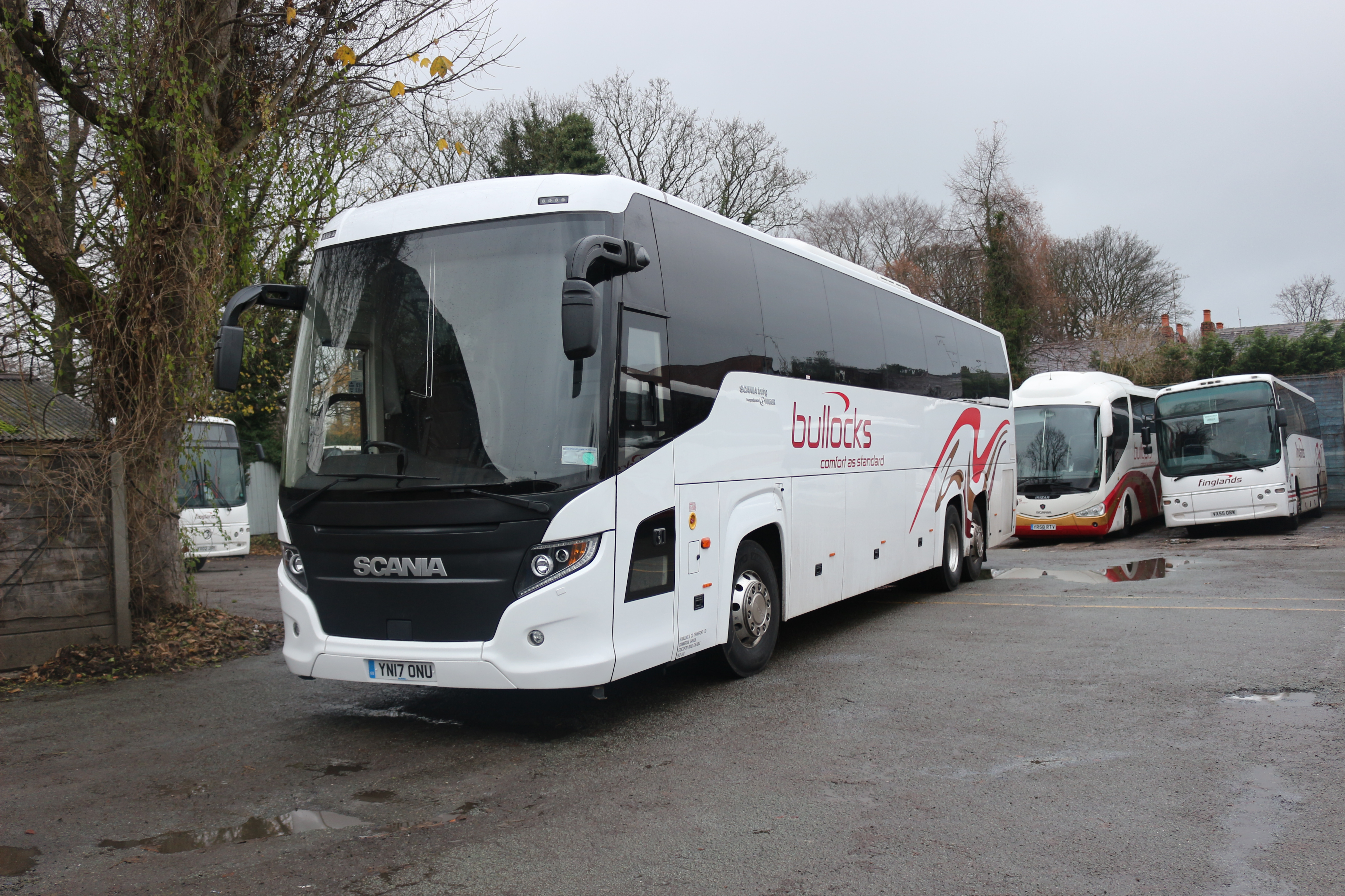 A Higer bodied Scania K410EB6 (C56Ft) At Bullock's depot 09/12/2017